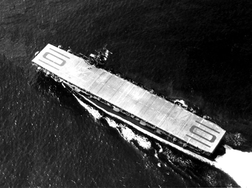 Aerial view of the U.S. Navy escort carrier USS Matanikau (CVE-101) underway, circa in 1944.